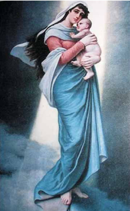 Madonna_Pinskaya